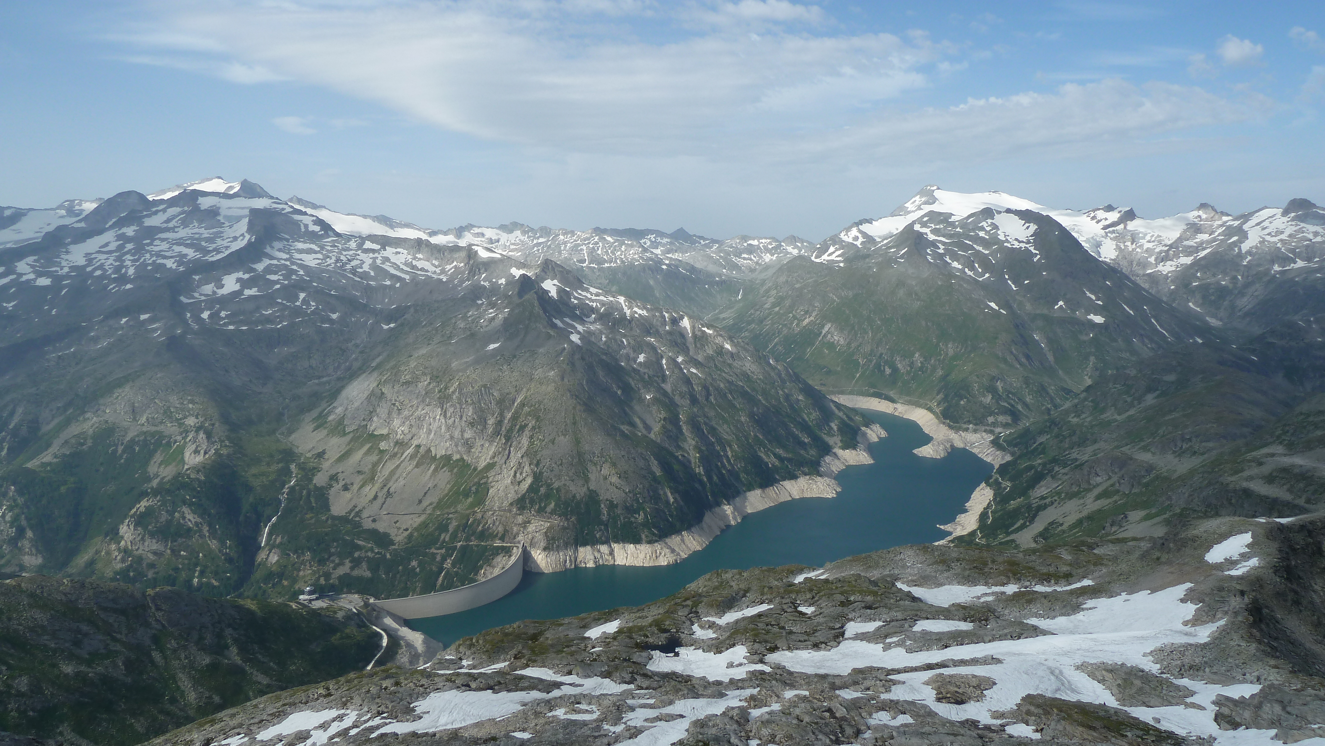 Reservoir of the Kölnbrein Dam in Carinthia, Austria. View from mountain "Weinschnabel". In the background one can see the mountains Hochalmspitze and Ankogel